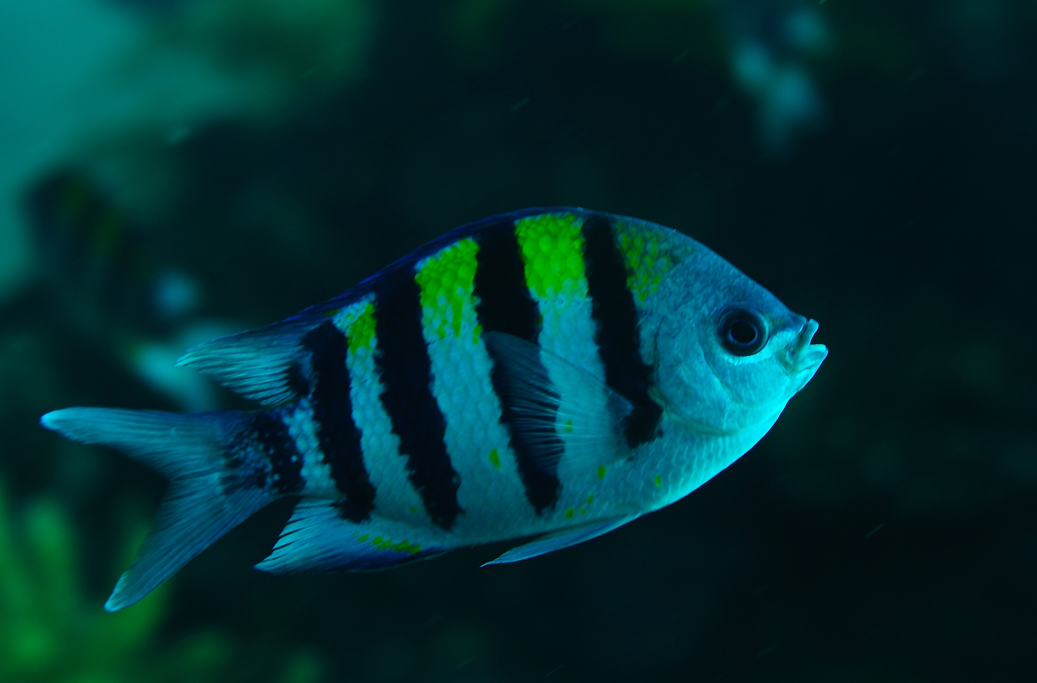 Abudefduf sexfasciatus male, as shown by the yellow colouring.